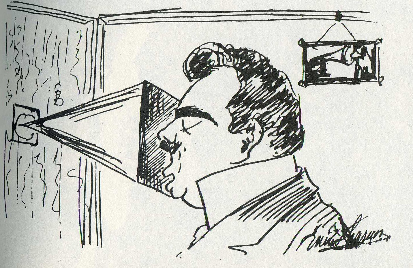 Operatic tenor Enrico Caruso was a draftsman and cartoonist as well as a singer. He drew this on April 11, 1902, to commemorate his first audio recordings for RCA Victor. He was one of the first classical vocalists to use the gramophone, then cutting-edge technology.